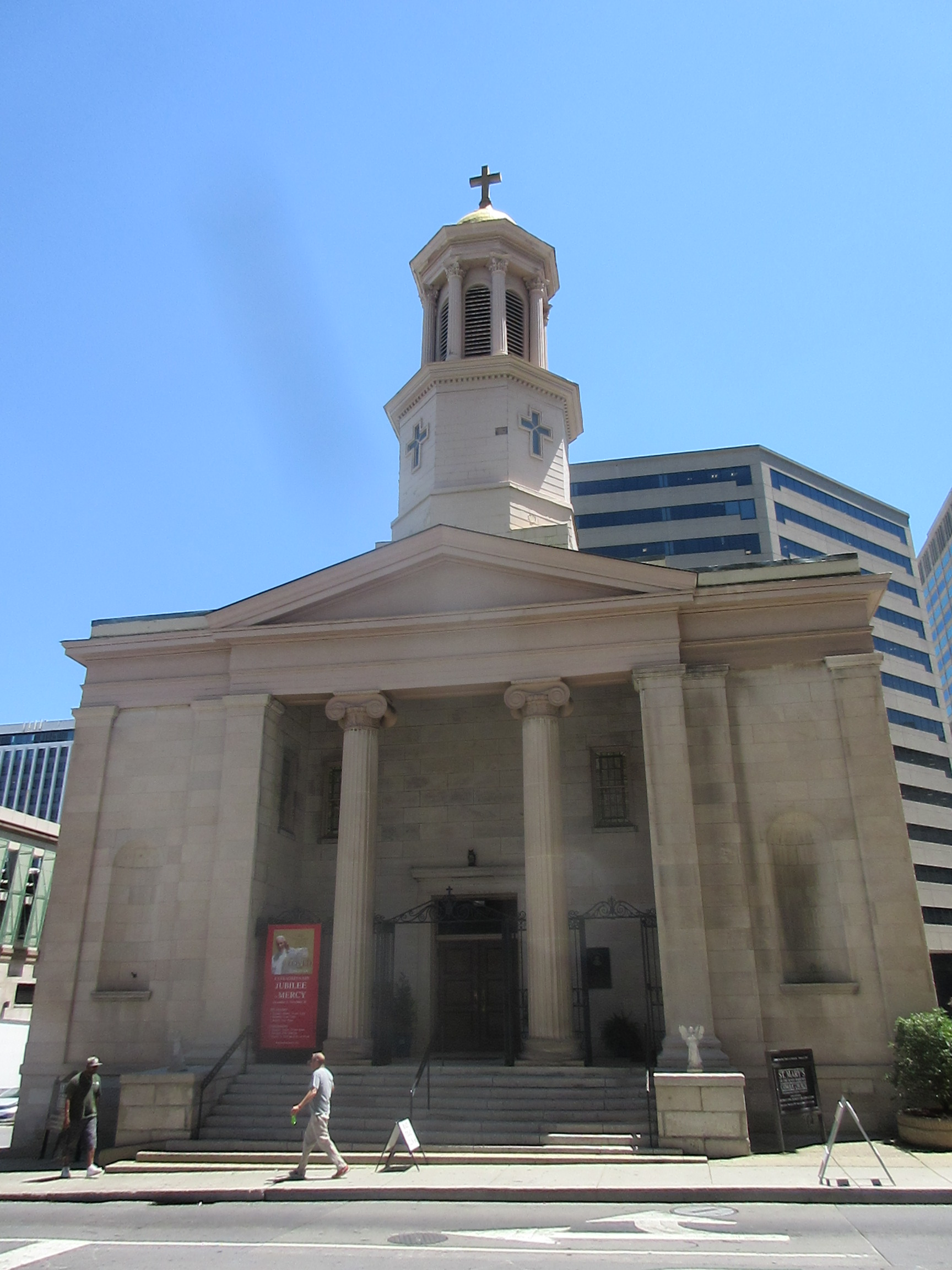 St. Mary's Catholic Church, Nashville.